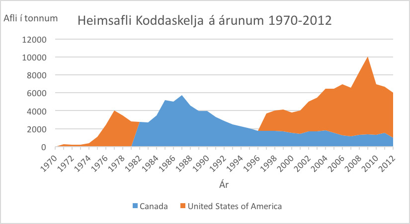 Koddaskel